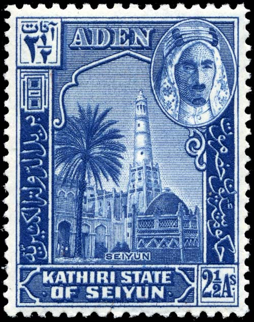 Kathiri state of Seiyun, 1942. Aden Protectorate (1869-1963), Kathiri state of Seyun 2 1/2-anna stamp of 1942.